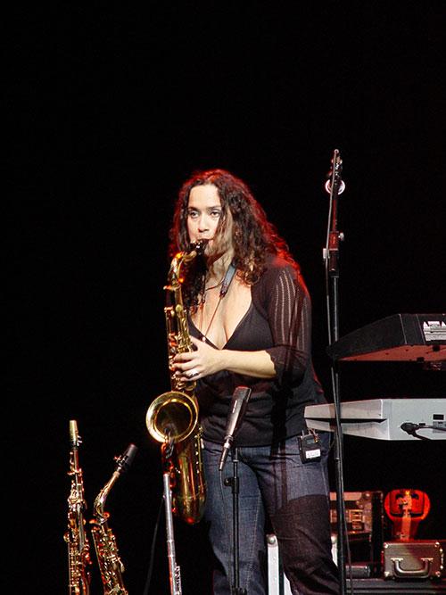 Scheila Gonzalez playing with the Zappa Plays Zappa band in Aarhus, Denmark